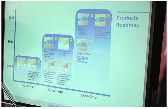 Allwinner Product Roadmap 20131010